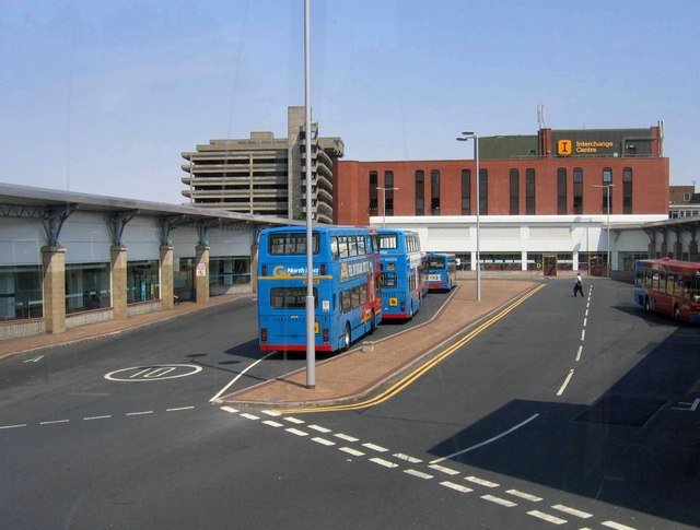 Gateshead Interchange. The view east into the northern one way loop of the bus station, from the top deck of a bus.